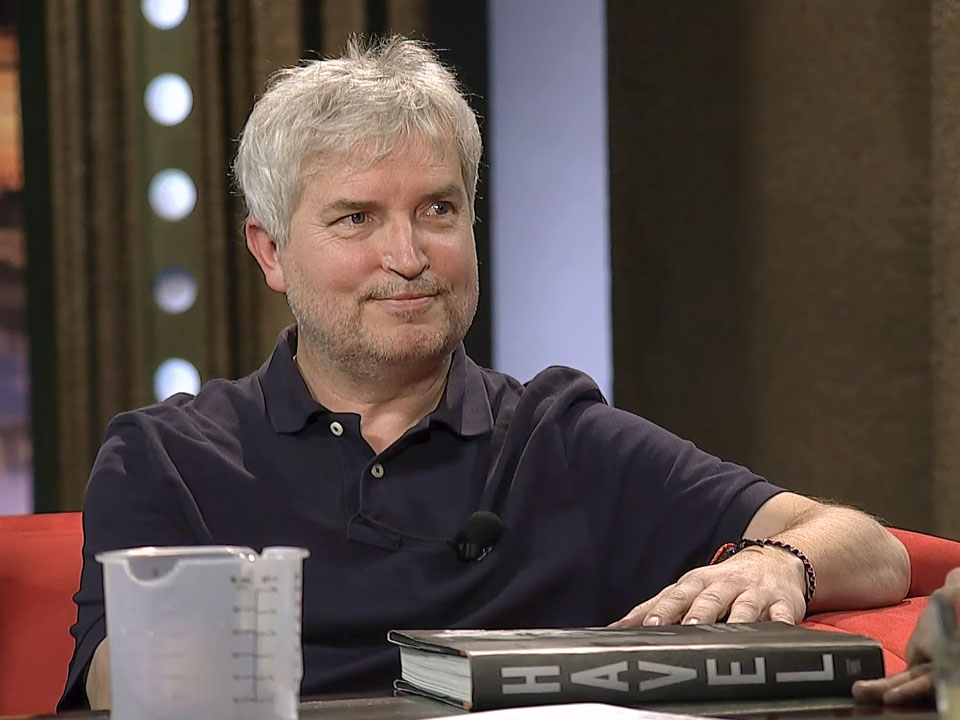 Czech photographer Tomki Němec